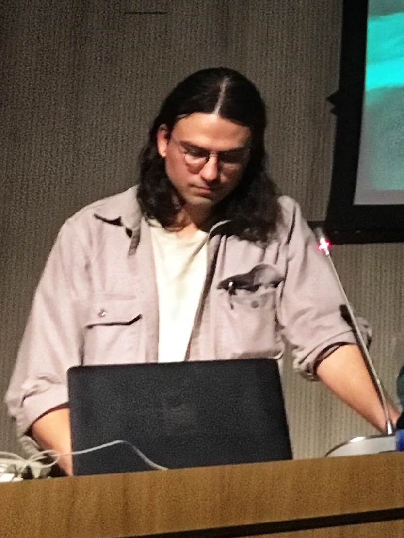 Composer and musician Ben Babbitt from Cardboard Computer during his talk “How to listen to a cave” at IULM University in Milan on February 15, 2019.